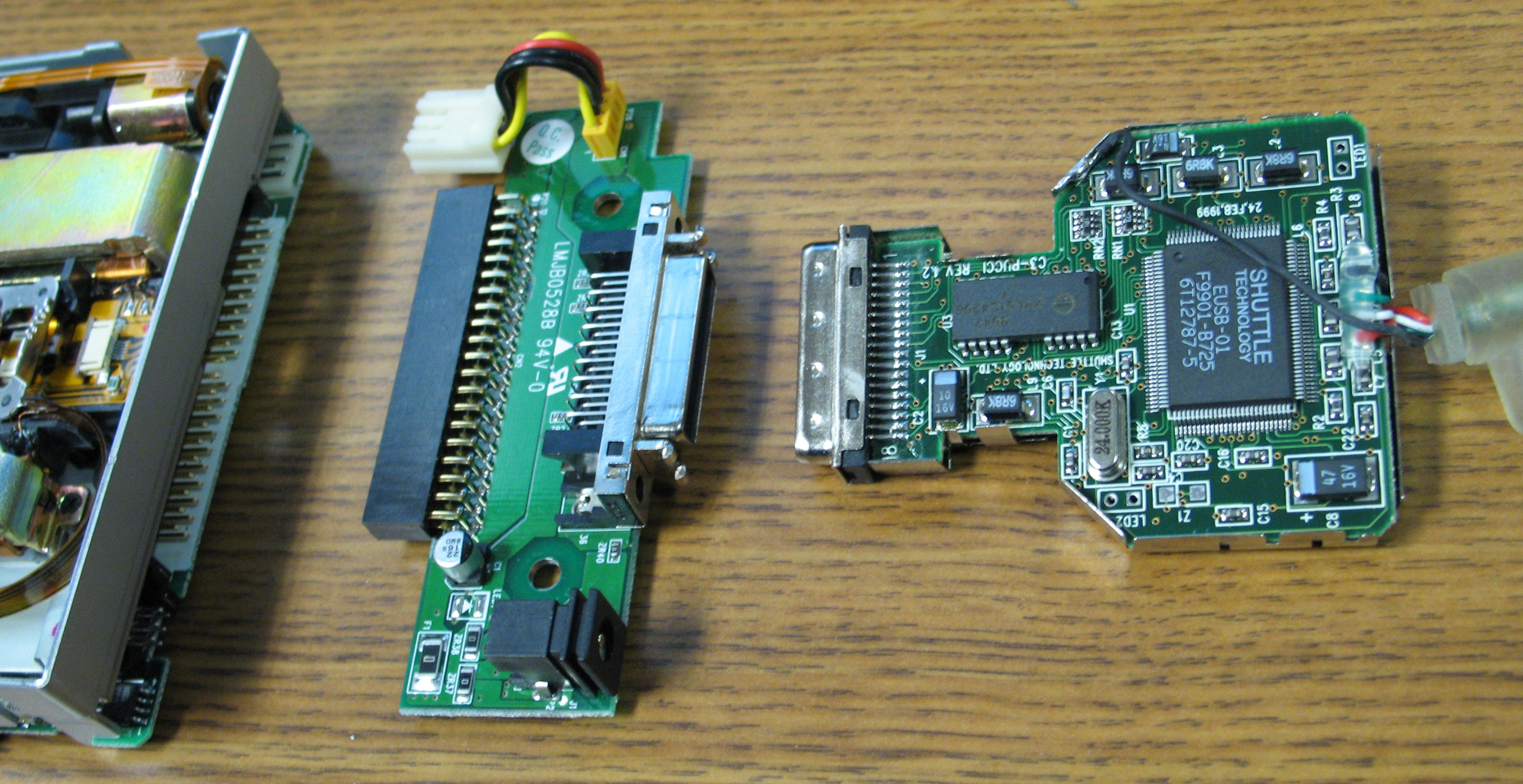 Interior components of the SuperDisk device for Macintosh. Internally the drive uses an IDE interface. To make it work for the Mac, a USB to IDE adapter was built, which clips onto the rear of the drive casing using a compact centronics-style connector. The USB-to-IDE adapter plugs into an intermediate adapter inside the drive casing that fans out the IDE pins to regular size. There is also a power connector on this intermediate board, and the drive can not function using only USB power.